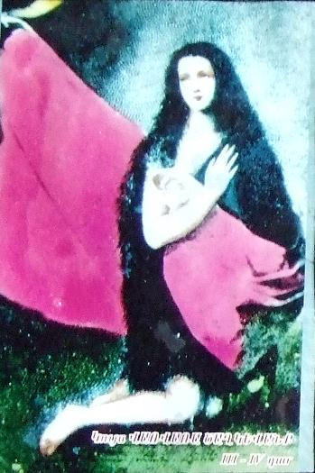 Painting of Kuys Varvara (Virgin Varvara), Tsaghkevank (Flower Monestar), Mount Ara, Armenia